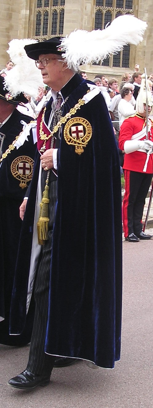 Lord Ashburton wearing his robes as a Knight Companion of the Order of the Garter, in procession to St George's Chapel, Windsor Castle for the annual service of the Order of the Garter.